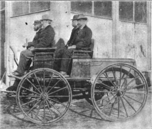 This photo of an 1893 electric automobile comes from an article in Outing Magazine entitled 'The Growth of the Automobile Industry in America' by David T. Wells. The article says the car was built by Harold Sturges. The caption reads, "The only American-built motor-car on exhibition at the Chicago World's Fair". There are other references (See Anderson, Electric and Hybrid Cars: A History) to this car outside of this article that cite William Morrison as the builder. I don't know which is correct. From the Google books archive: Title Outing, Volume 51 Published 1908 Original from the University of California Digitized Jan 25, 2008